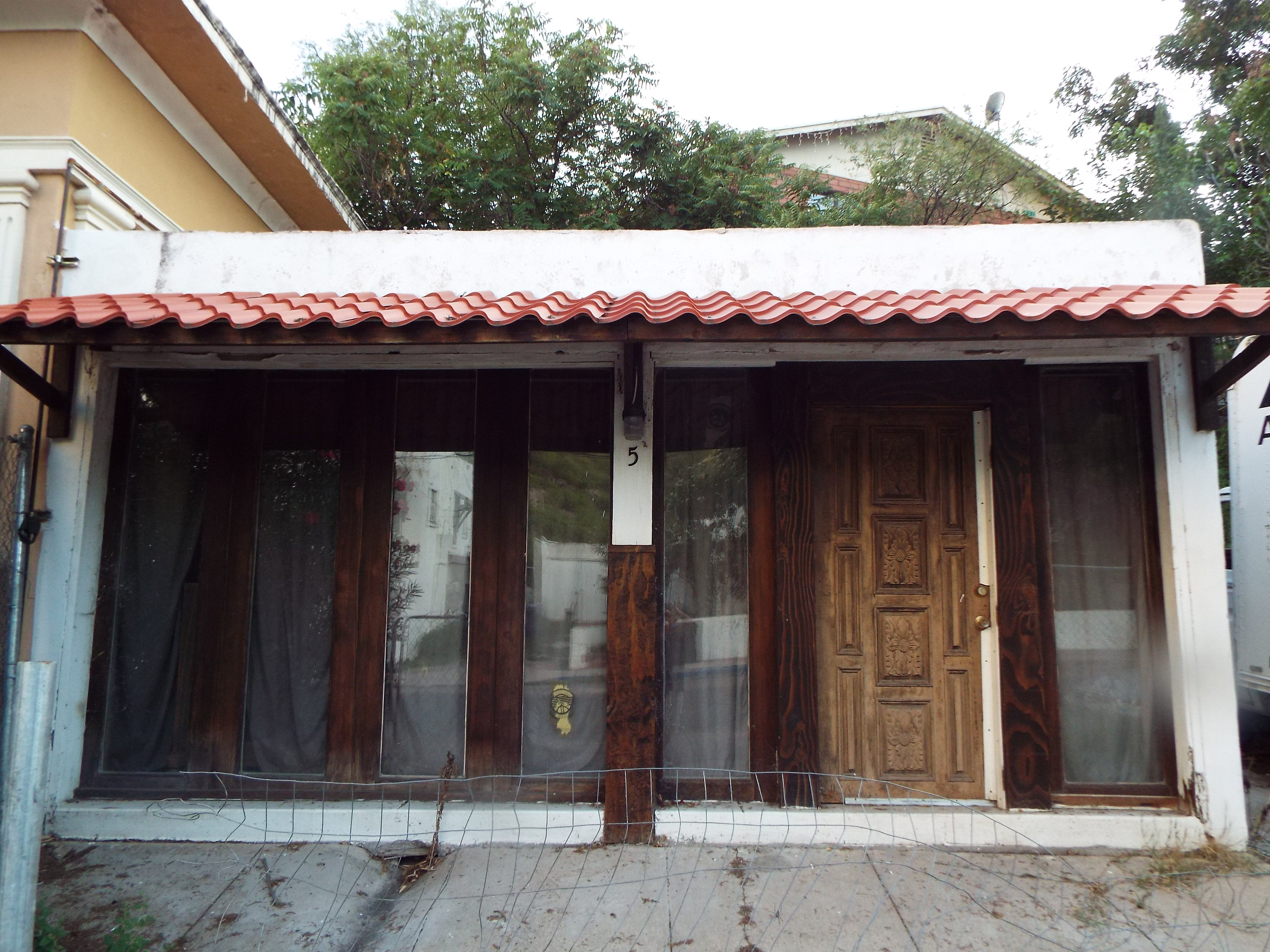 Building on 465 Walnut Street-19 in Nogales, Az